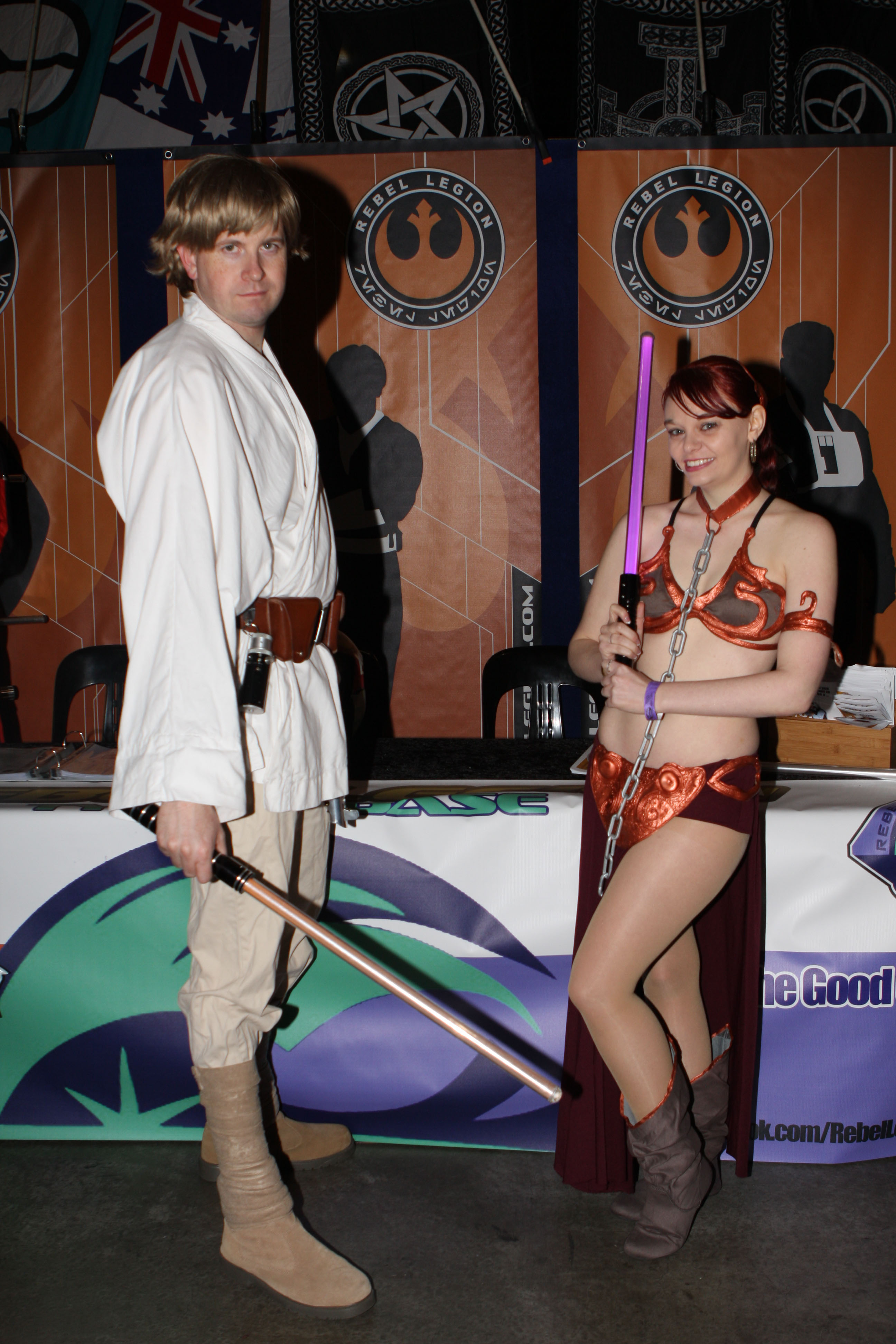 supanova pop culture exhibition 2014